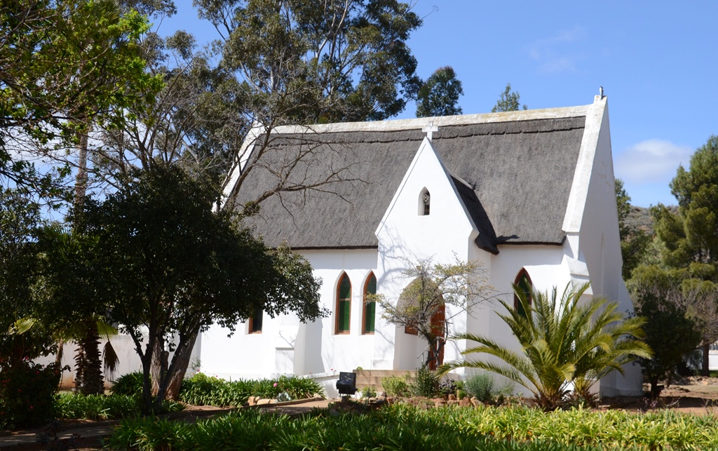 All Saints Church, 33 Voortrekker Street, Uniondale This media shows a South African Protected Site with SAHRA file reference 9/2/096/0015.